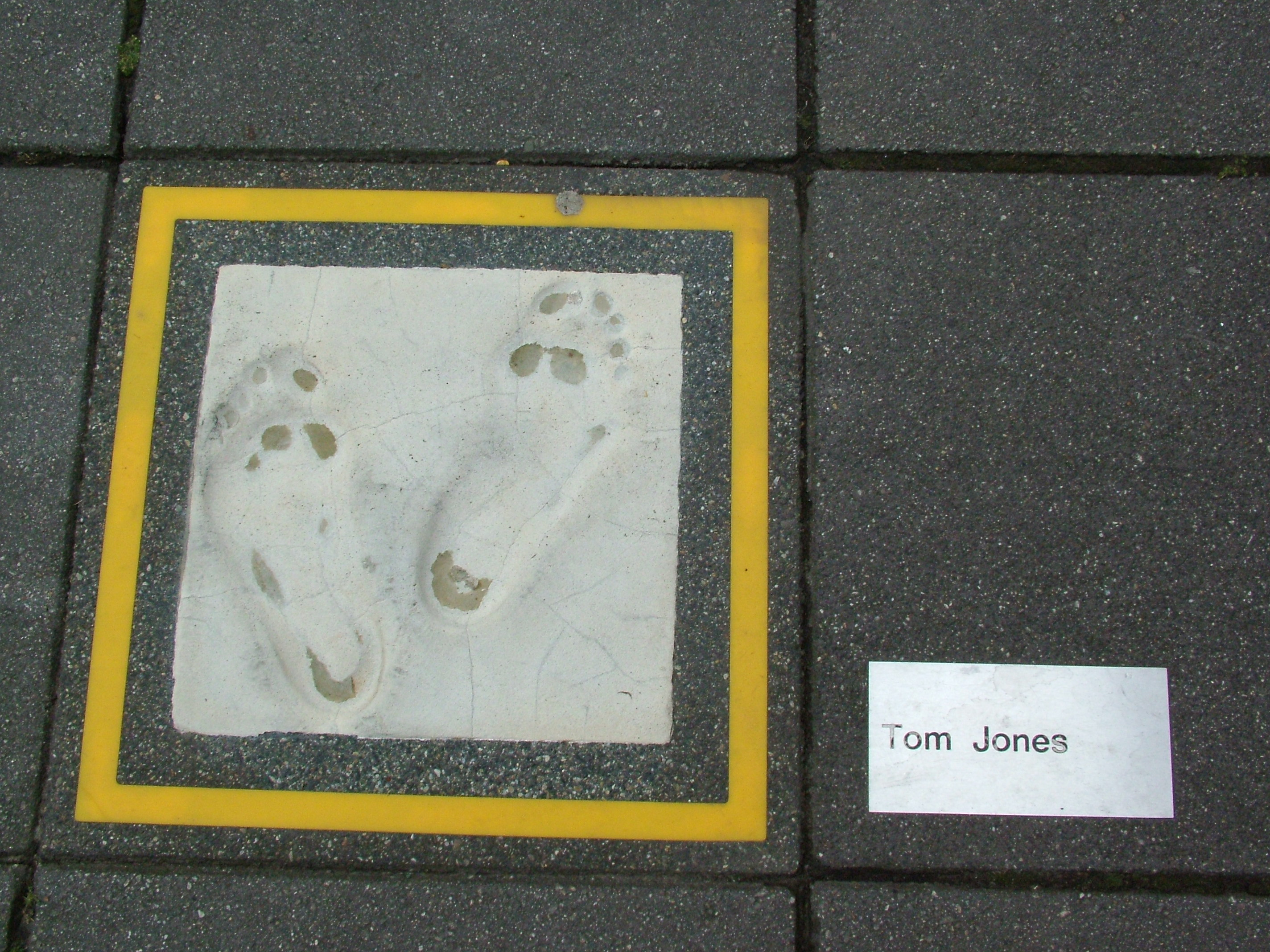 Foot print of Tom Jones at the Walk of Fame in Rotterdam, the Netherlands.